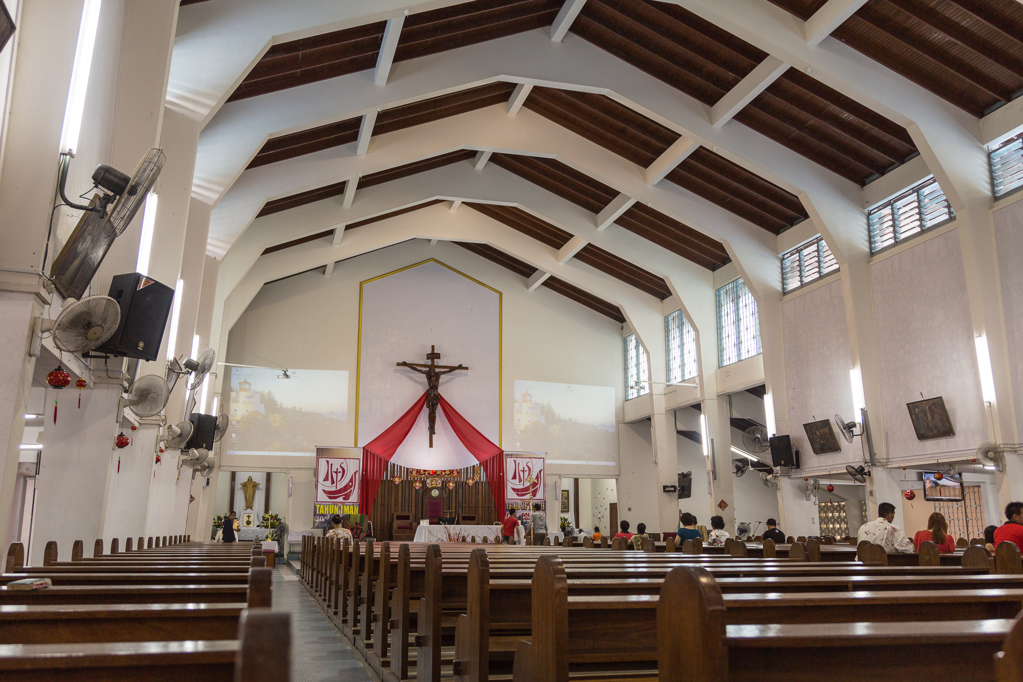 Sandakan, Sabah: St. Mary's Cathedral, Inside View